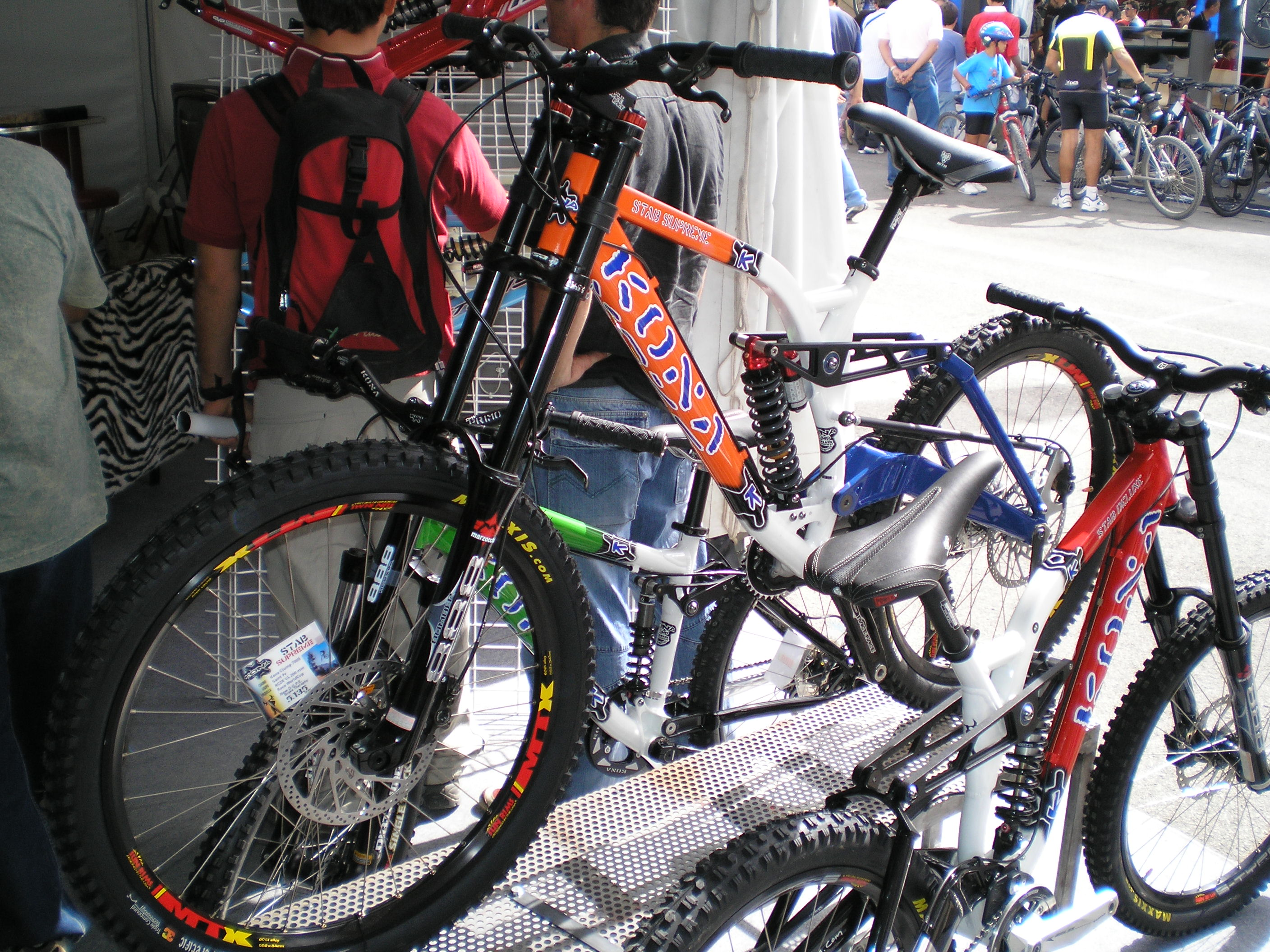 Kona Stab Supreme